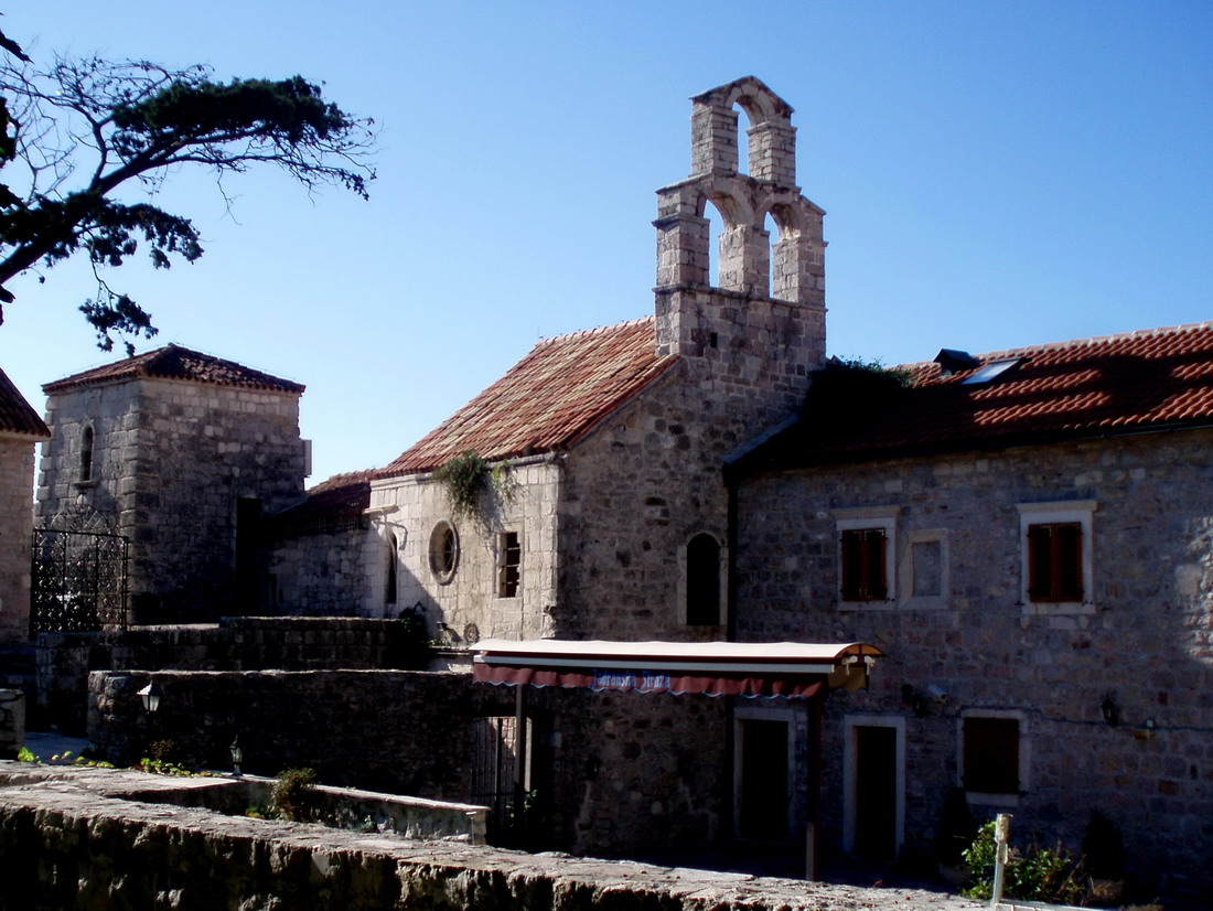 Church of St. Maria in Punta (Budva)